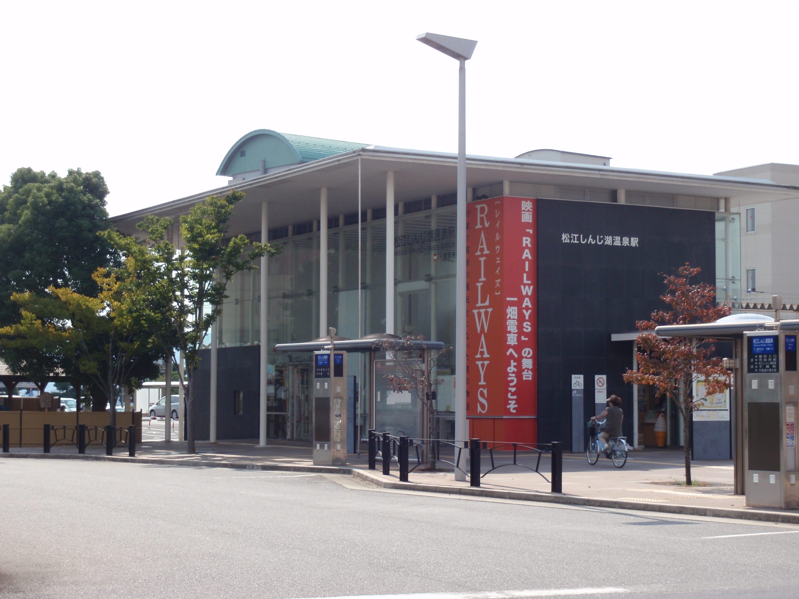 Matsue Shinjiko Onsen Station